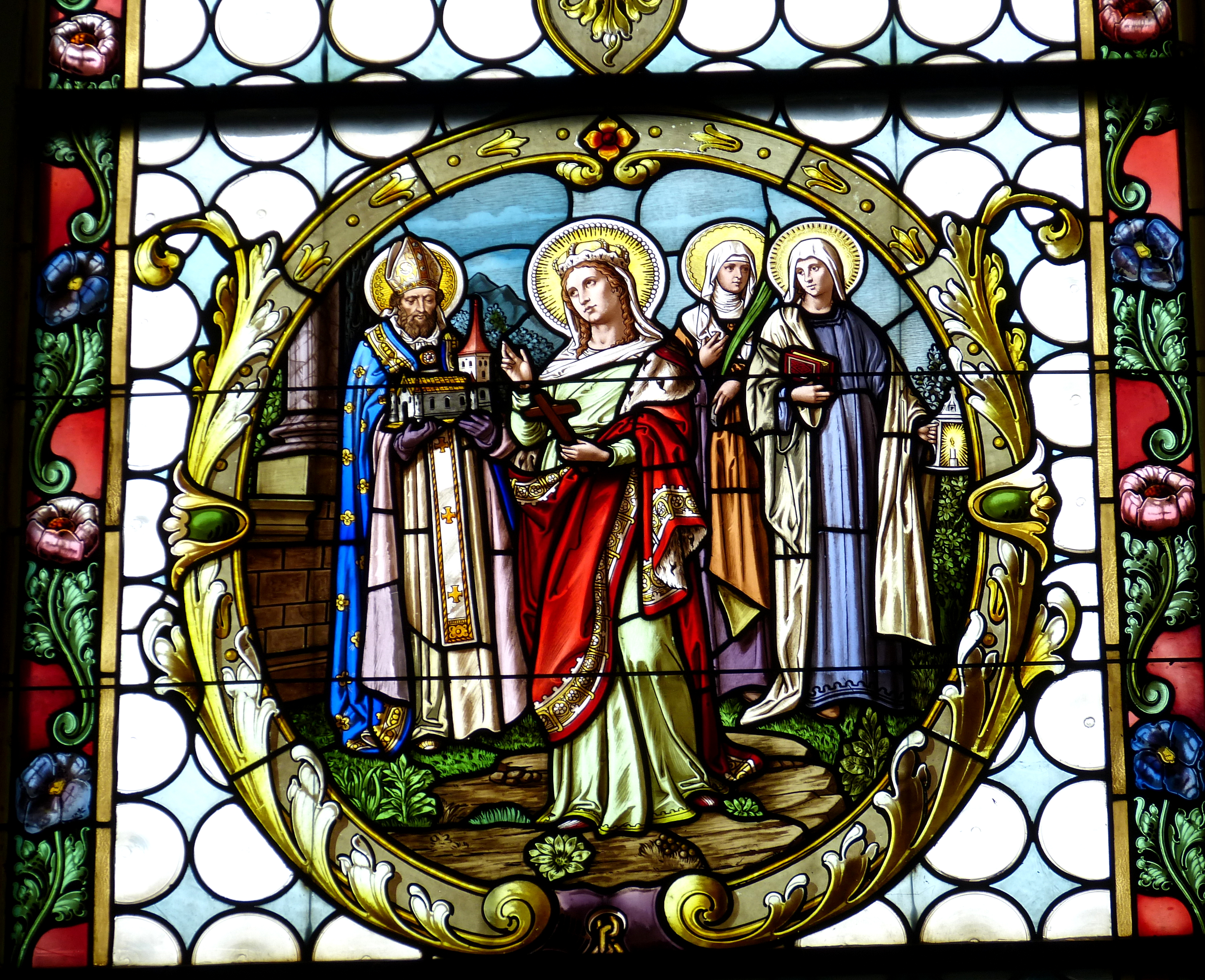 Bad Leonfelden ( Upper Austria ). Maria Schutz am Bründl church: Stained glass window ( 1906 ) by Penner und Schürer - Saint Amalia.